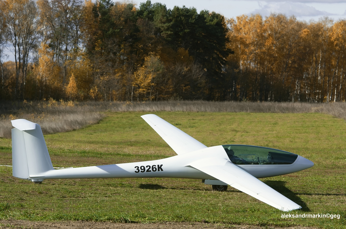 Airfield Shevlino.Russian glider AC-6 3926K